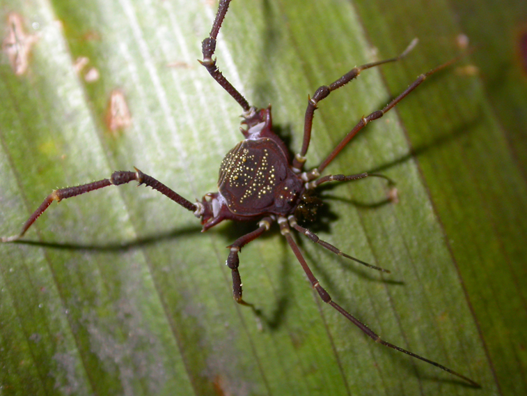 Lacronia ceci Kury & Orrico, 2006. Male. Picture taken at PARNASO, Teresópolis, RJ, BRAZIL in December 2006.